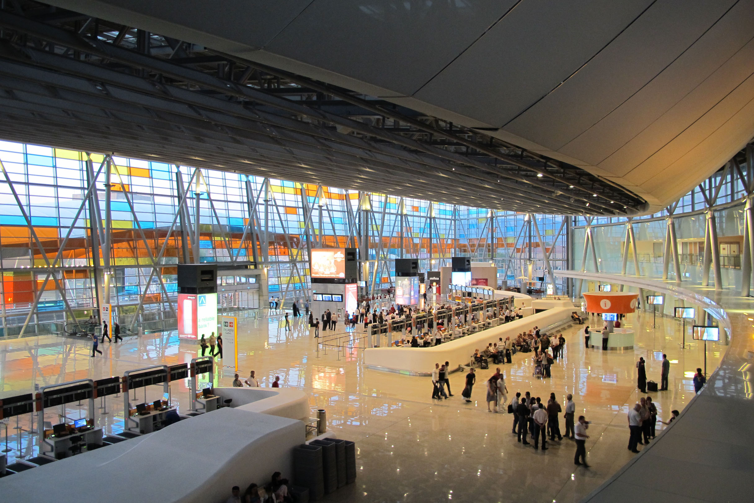 Zvartnots International Airport check in hall.